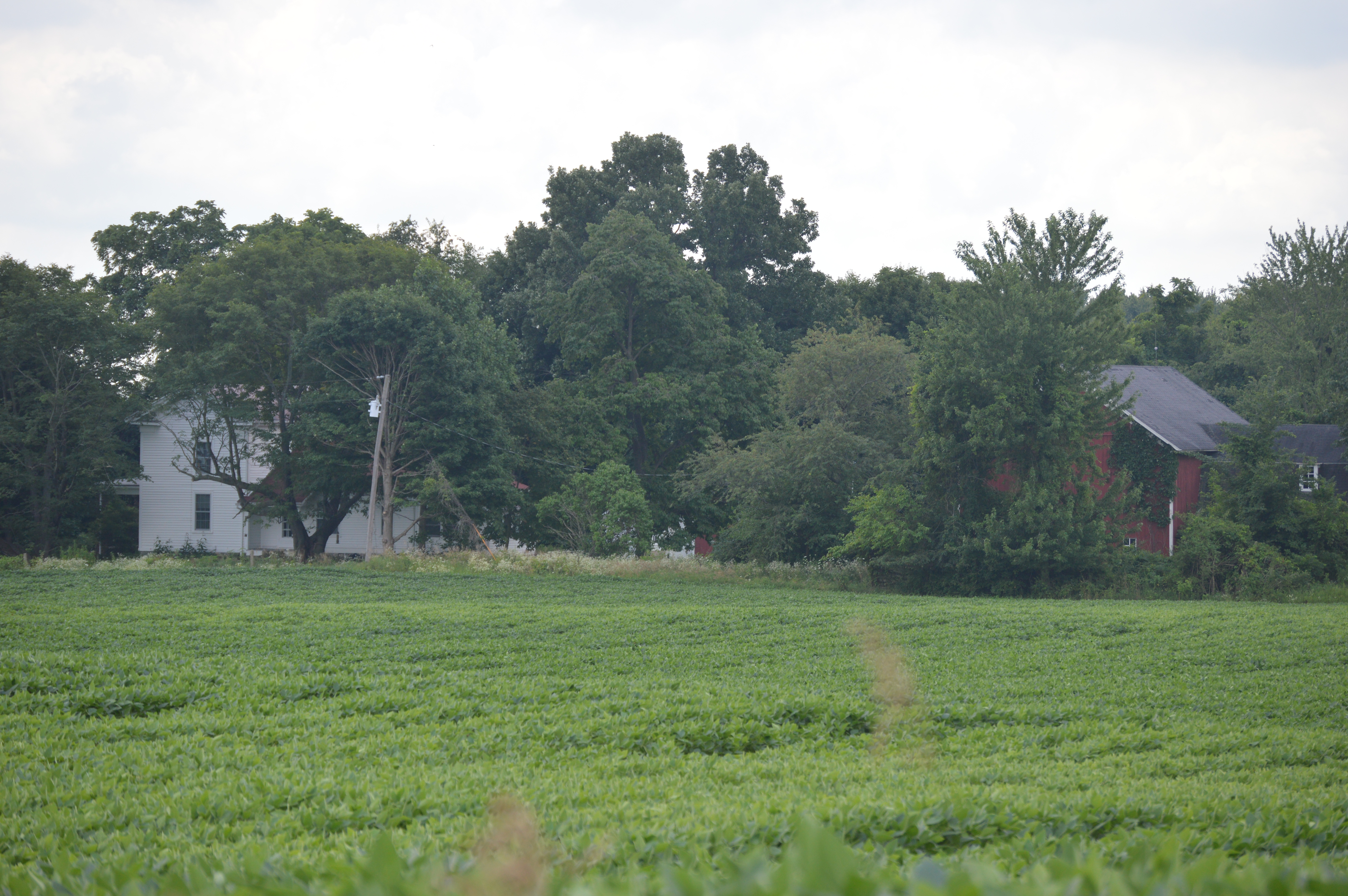 Buildings at the Norris Farm, located at 18799 Peach Road in Union Township, Marshall County, Indiana, United States. Built in 1855, the farmstead is listed on the National Register of Historic Places.